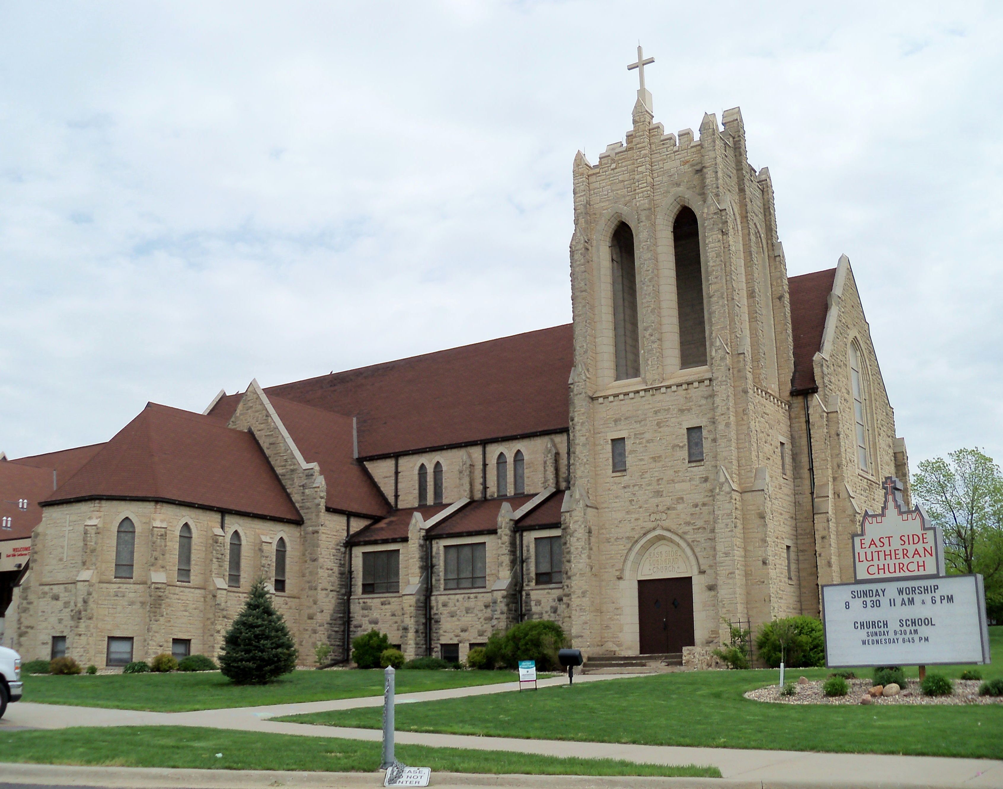 East Side Lutheran Church in Sioux Falls, South Dakota, USA.